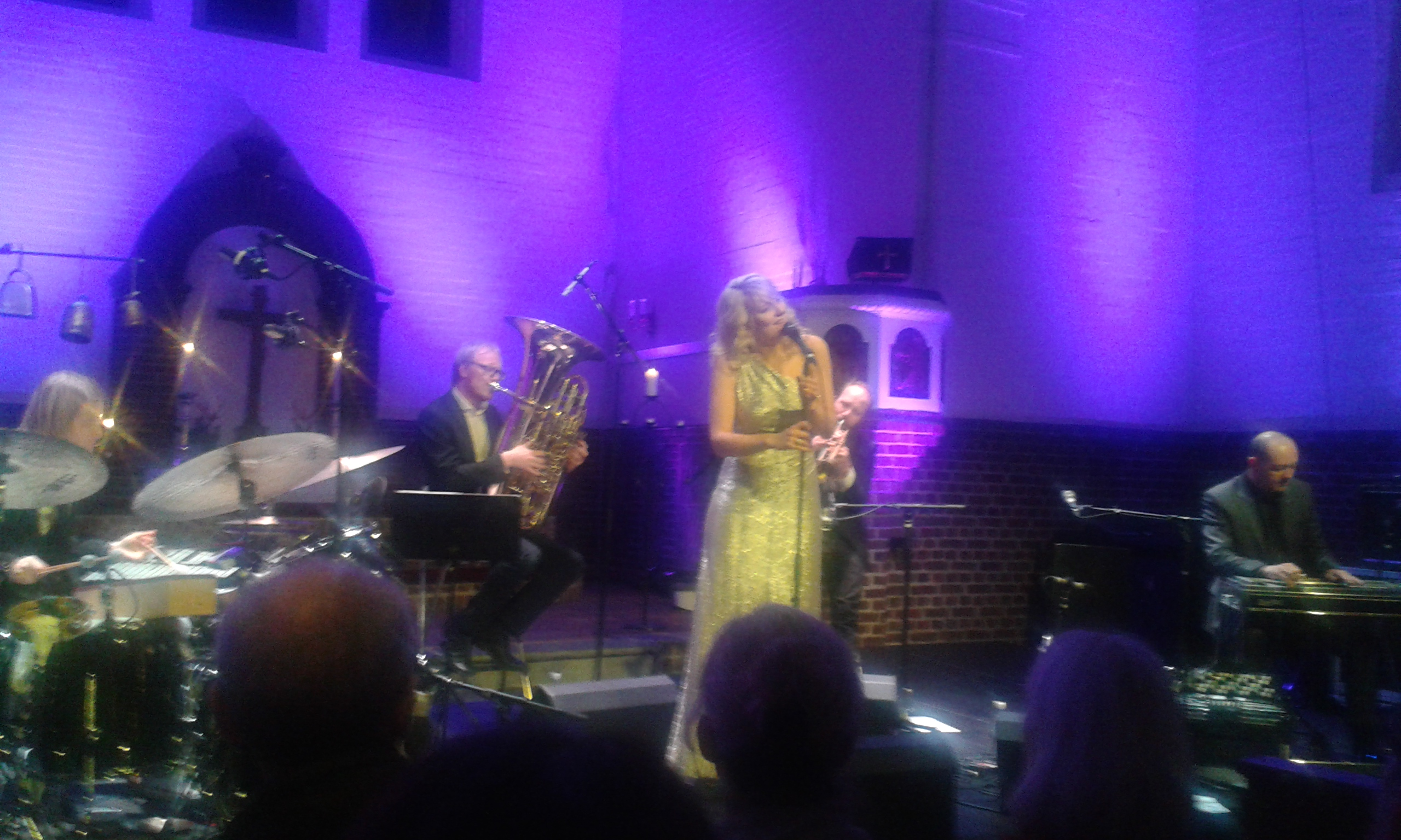 Tora Augustad and Music for a Wile 2014.